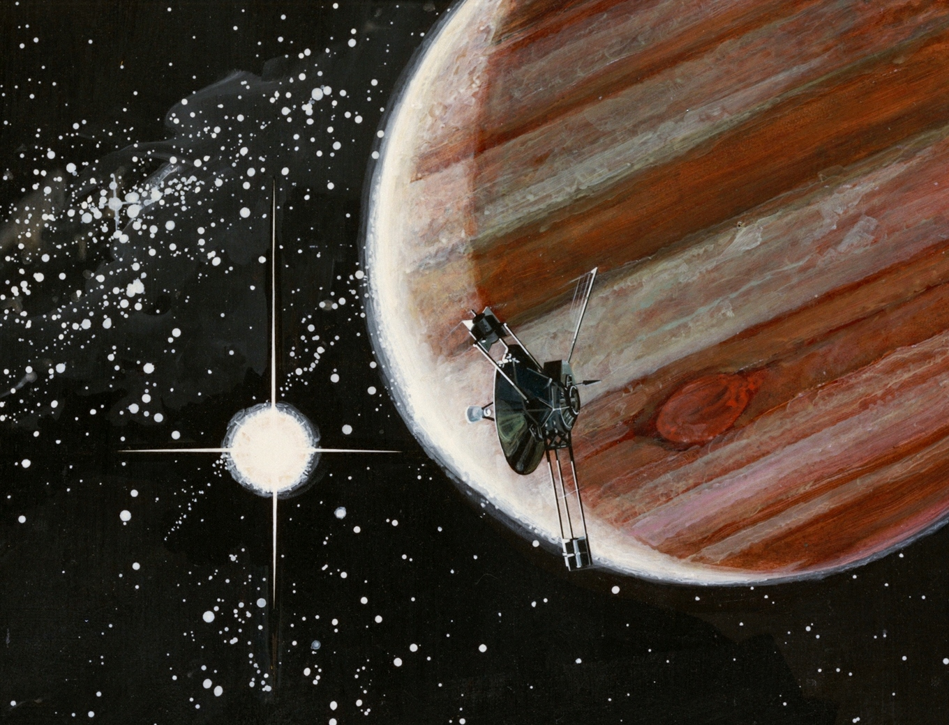 Pioneer (10) passing Jupiter